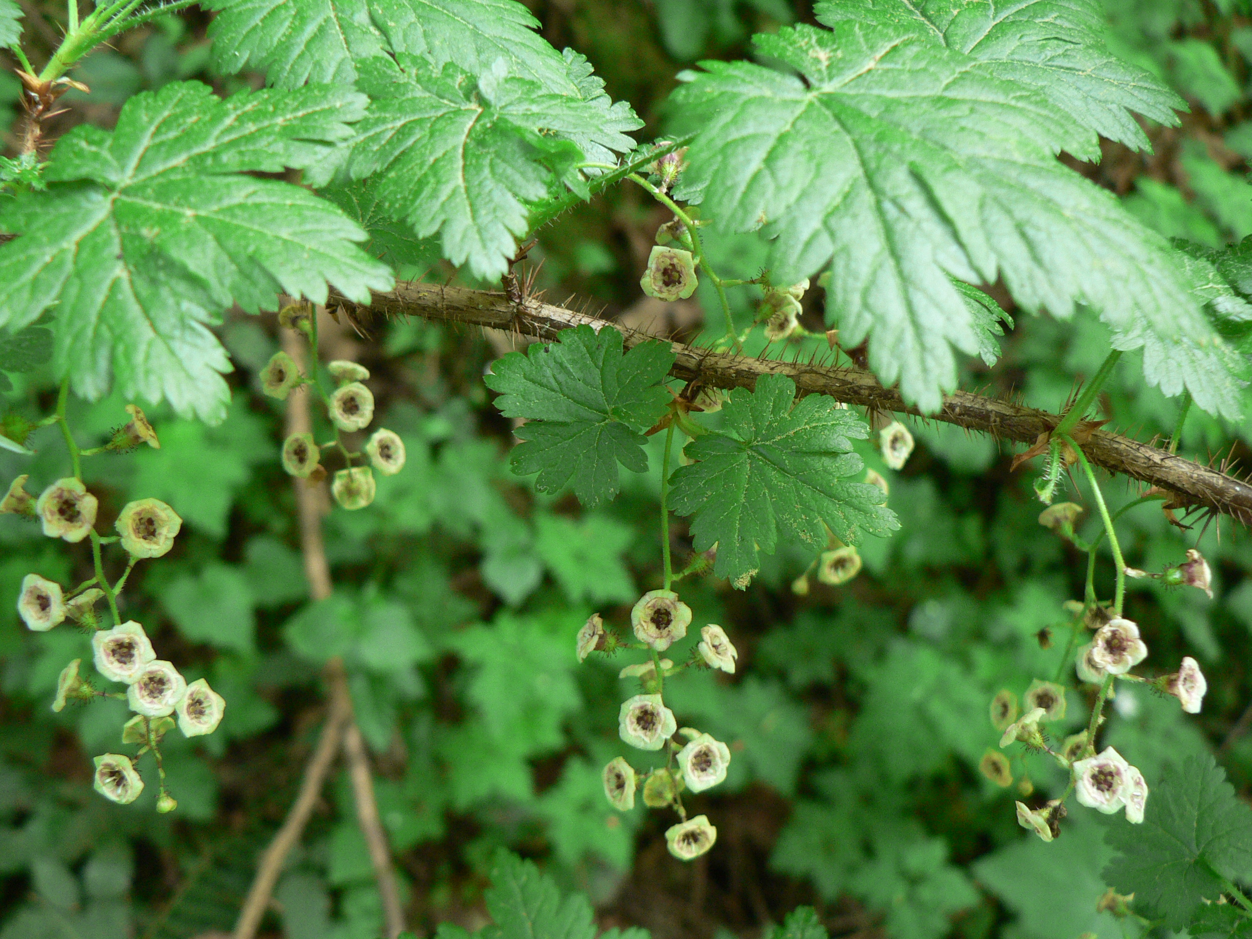 Prickly Currant